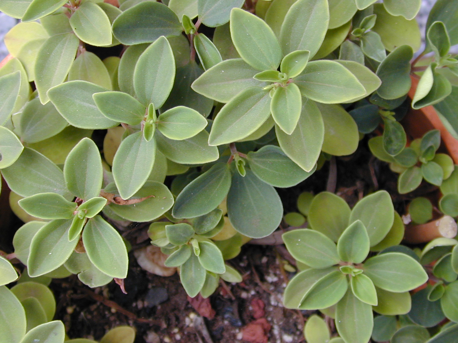 Peperomia blanda (leaves). Location: Maui, Makawao